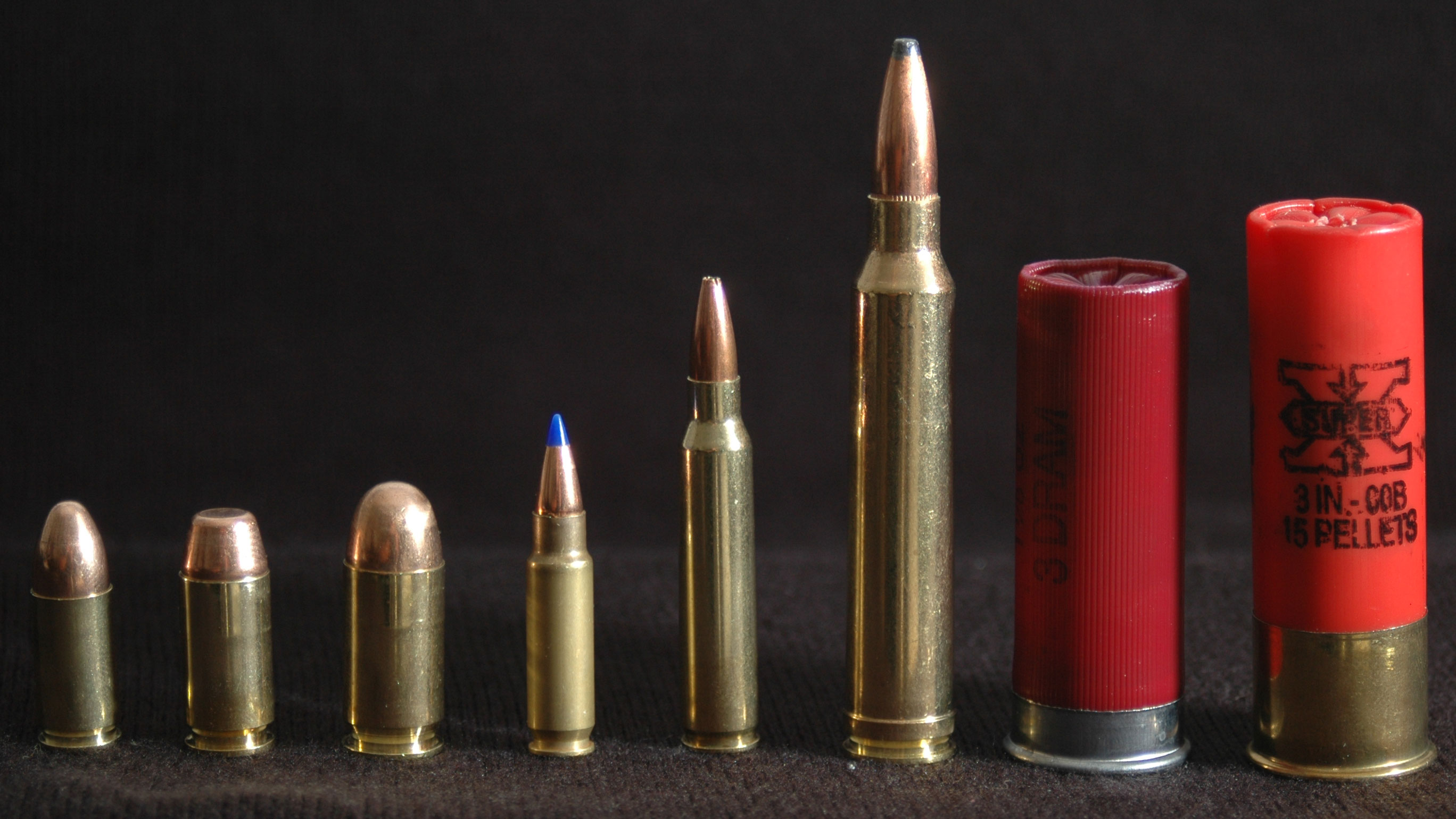 This is a line-up of pistol and rifle cartridges. From left to right: en:9 mm Luger Parabellum, en:.40 S&W, en:.45 ACP, en:5.7x28mm, en:5.56x45mm NATO, en:.300 Winchester Magnum, and a 2.75-inch and 3-inch 12 gauge.